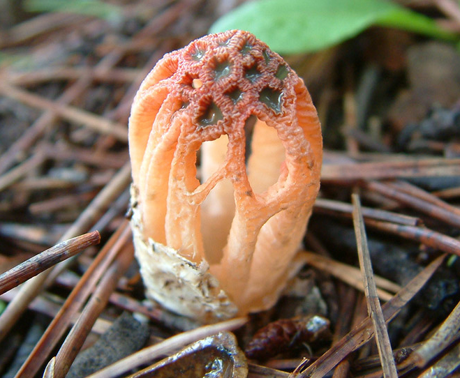 The stinkhorn fungus Colus hirudinosus. Specimen photographed in Monsanto, Lisboa, Portugal. Original cropped slightly by uploader.